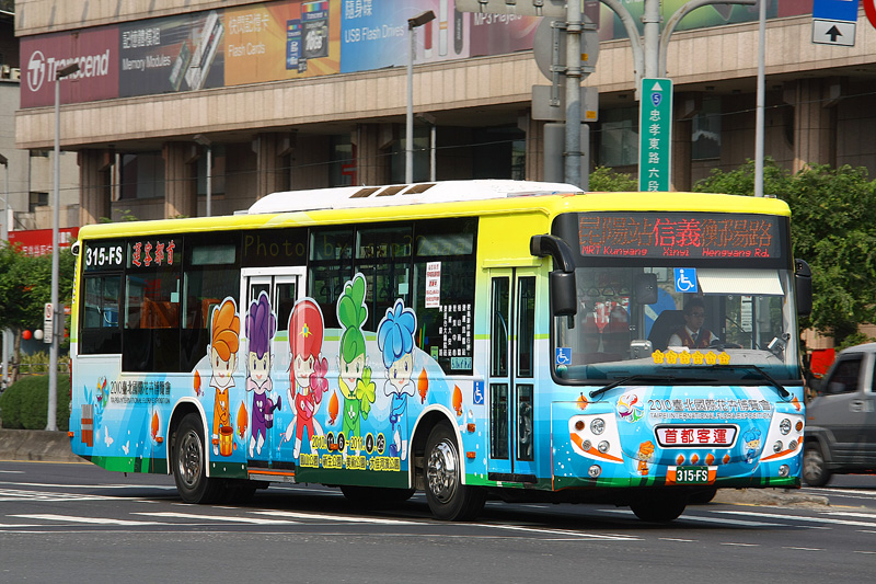 2010 Taipei International Flora Exposition mascots on Capital Bus 315-FS, Zhongxiao East Road Section 6, Taipei City